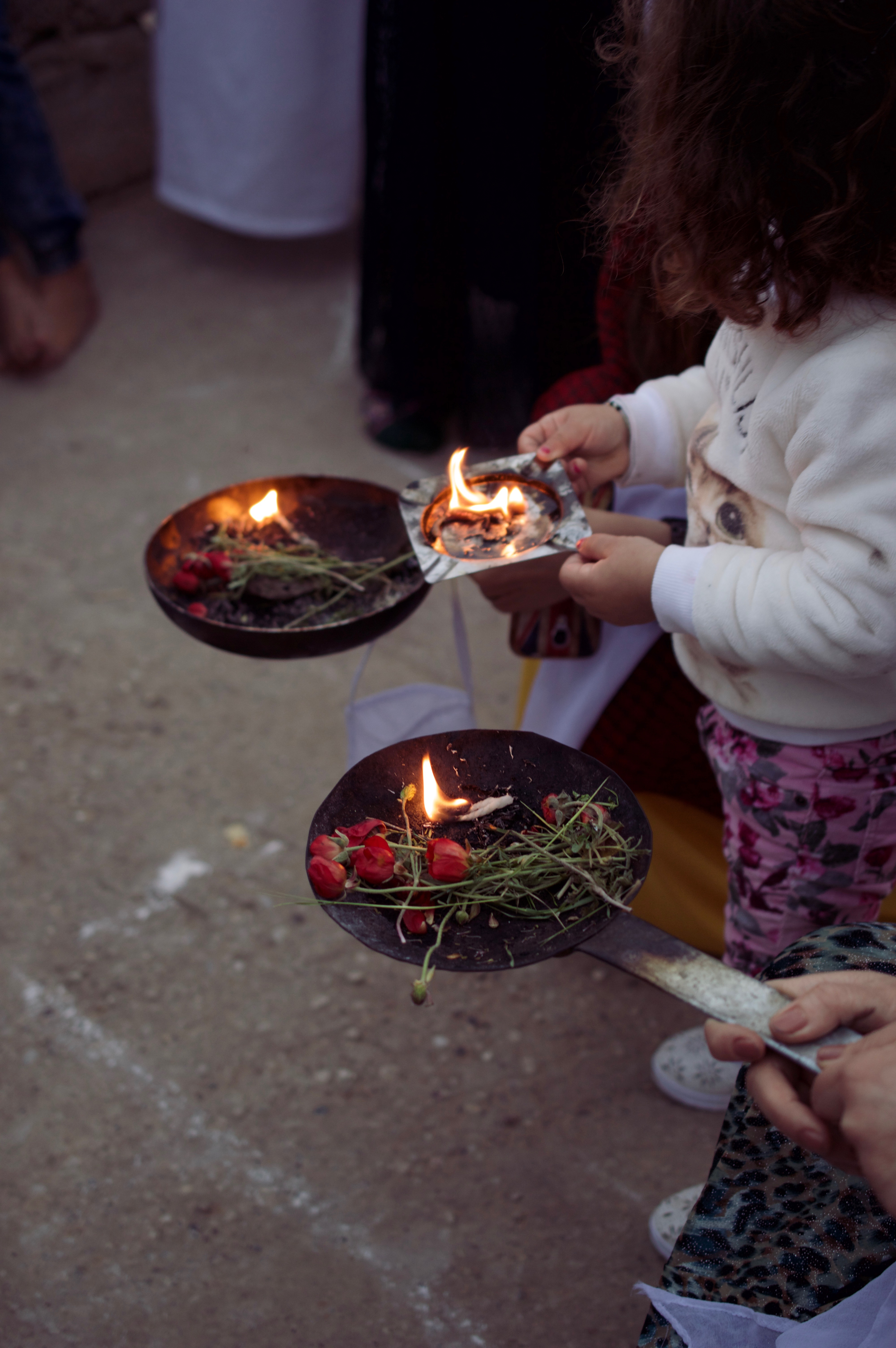 Celebrating the Yezidi (Ezidi) New Year on 18 April 2017, the evening before the start of the new year.